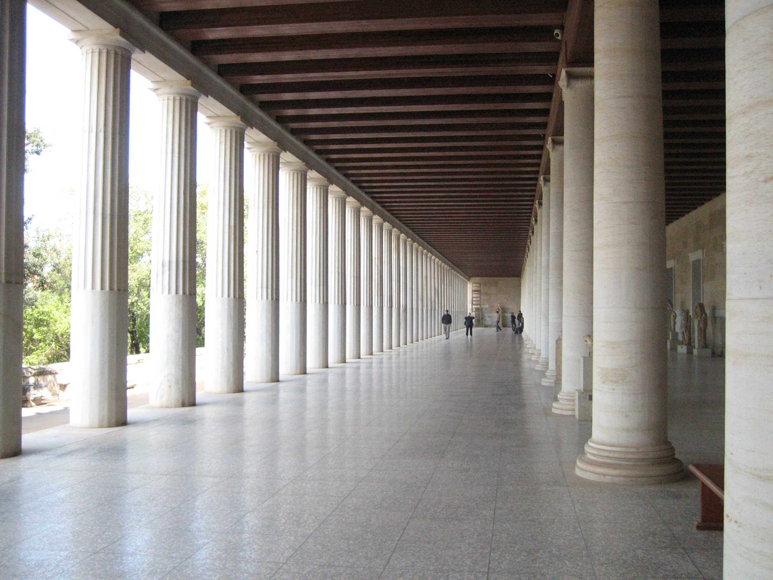 Interior of the Stoa of Attalus at the Ancient Agora of Athens, Central Athens, Attica, Greece